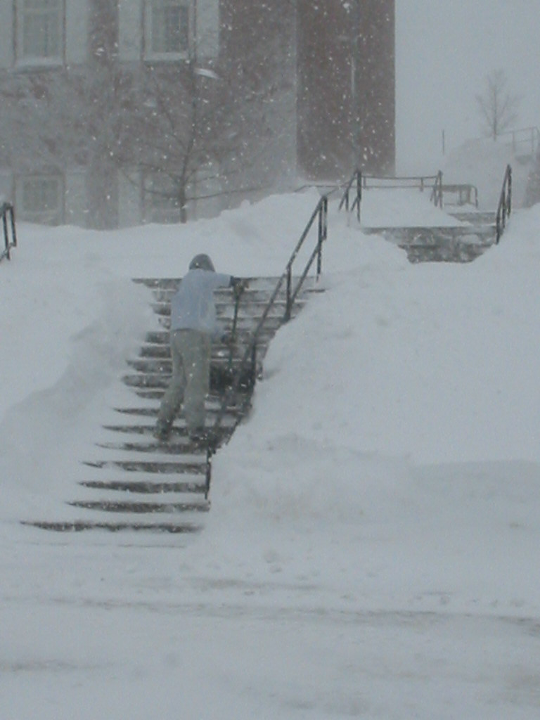 Snow removal after a snowstorm in 2004.